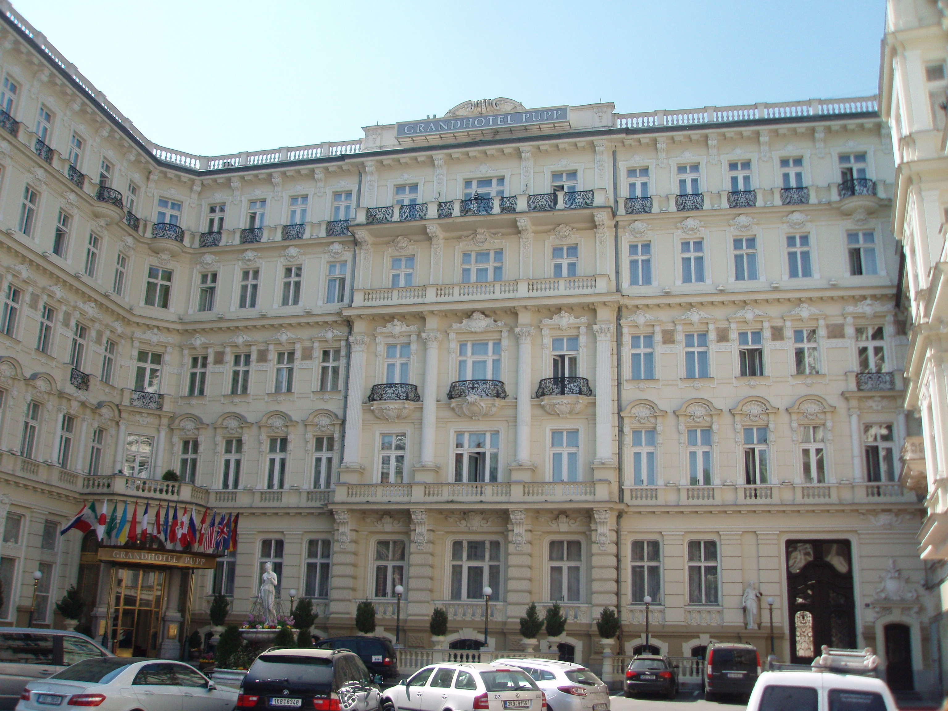 Grand Hotel Pupp